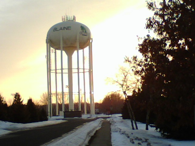 A water tower in Blaine, USA just before a winter sunset. The city pumps its drinking water from wells, and stores them into towers like this one, which is located in the Blaine Baseball Complex Park at the intersection of Buchanan Street NE and Paul Parkway NE. The view is looking southwest at 16:30 CST on January 8, 2008.